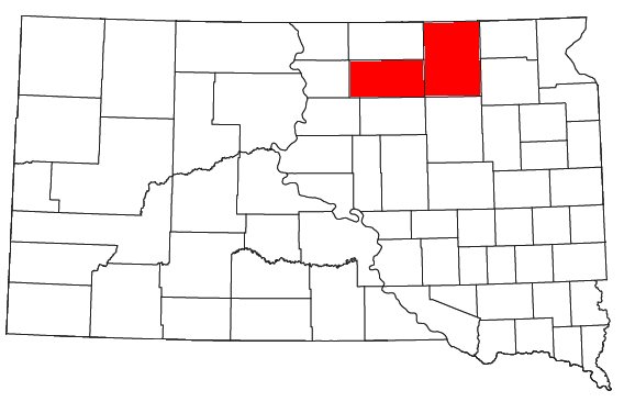 Locator map of the Aberdeen Micropolitan Statistical Area in the northeastern part of the U.S. state of South Dakota.